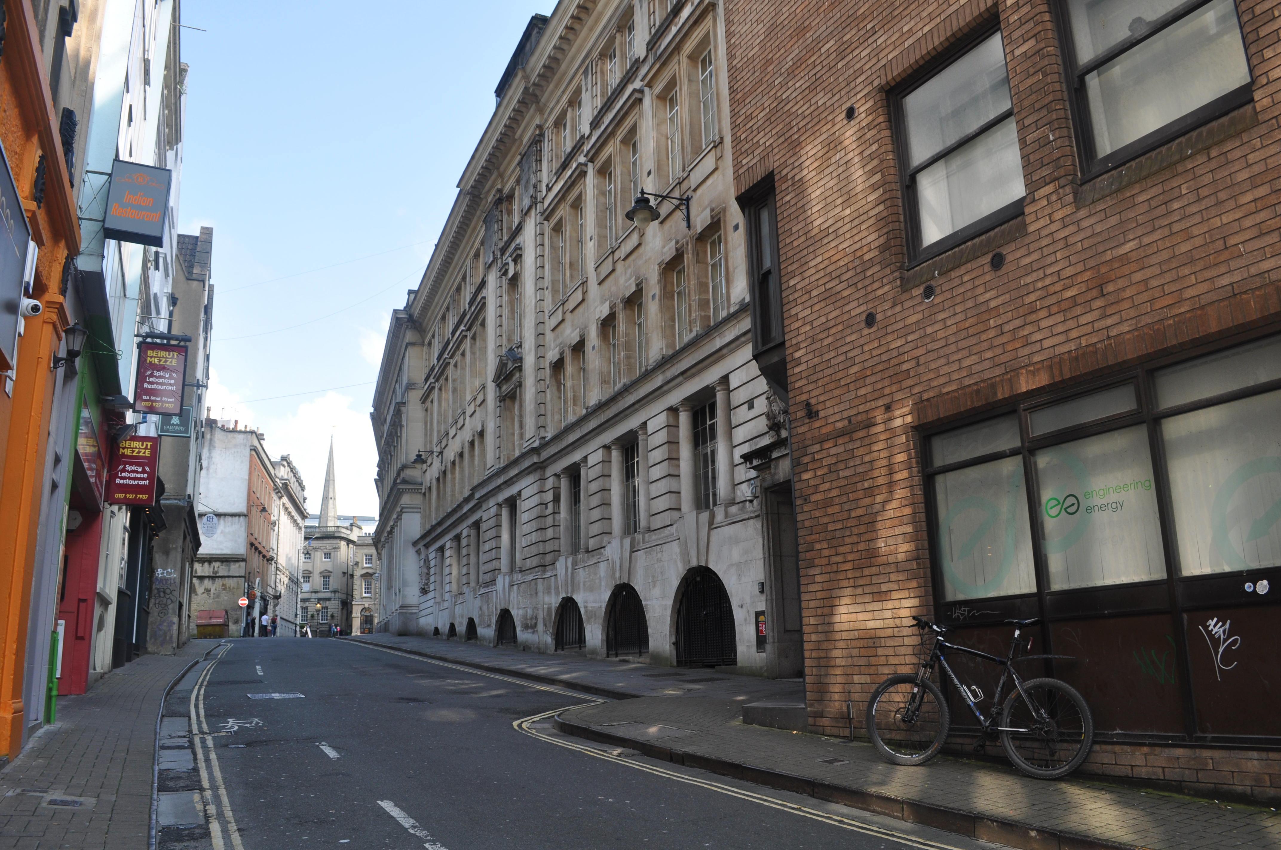 Small Street, Bristol, looking south-east towards Corn Street. Crown Court on right, St Nicholas steeple in distance